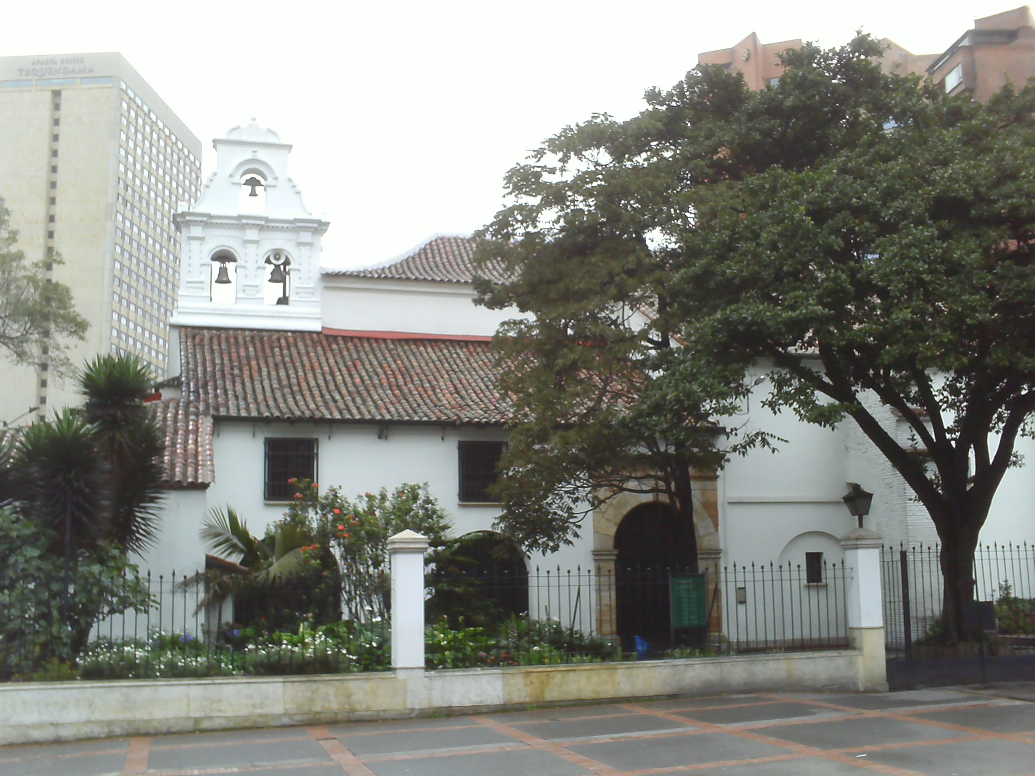 Church of San Diego, Bogotá (Colombia)